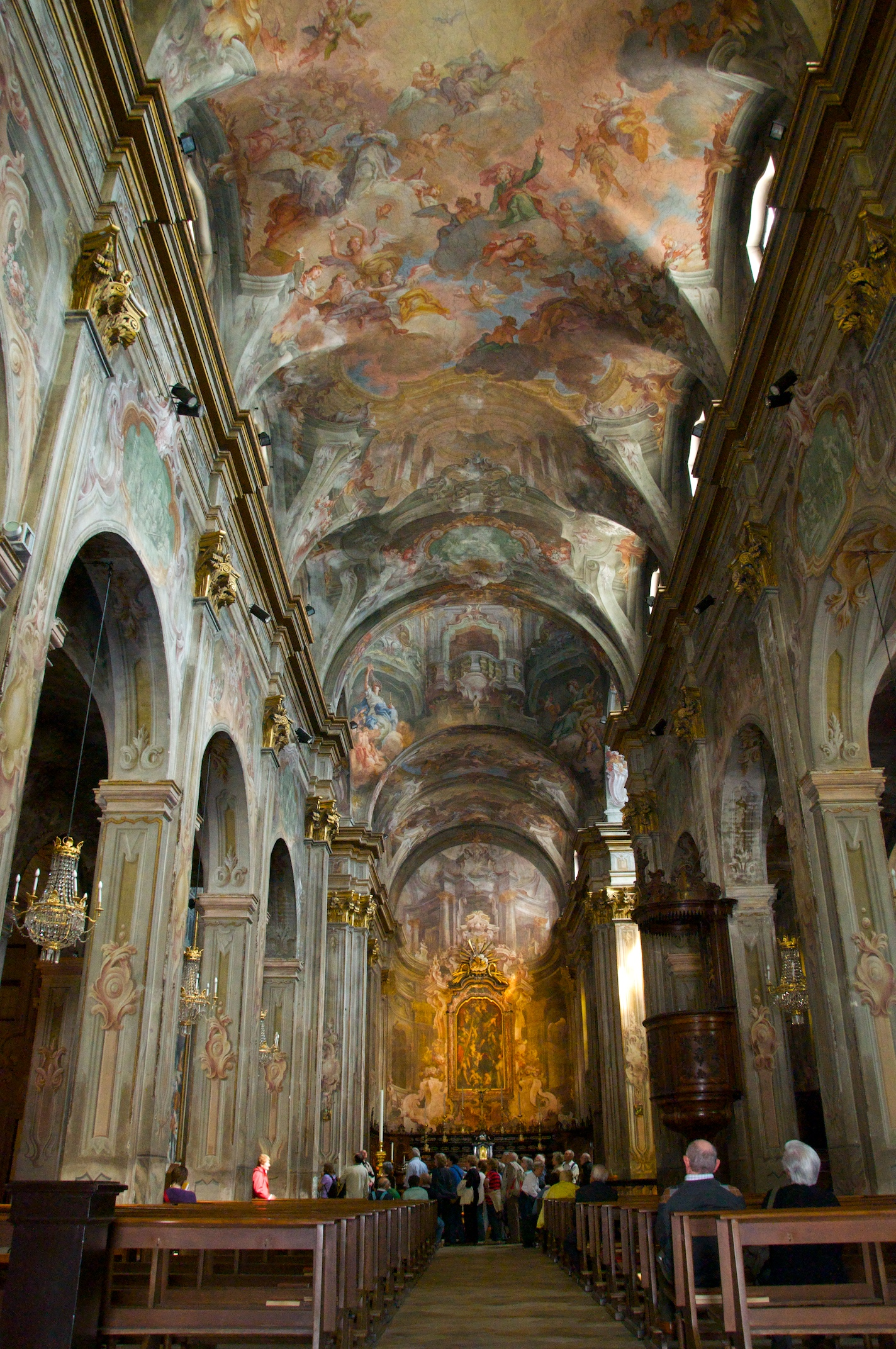 San Cristoforo Church in Vercelli main nave